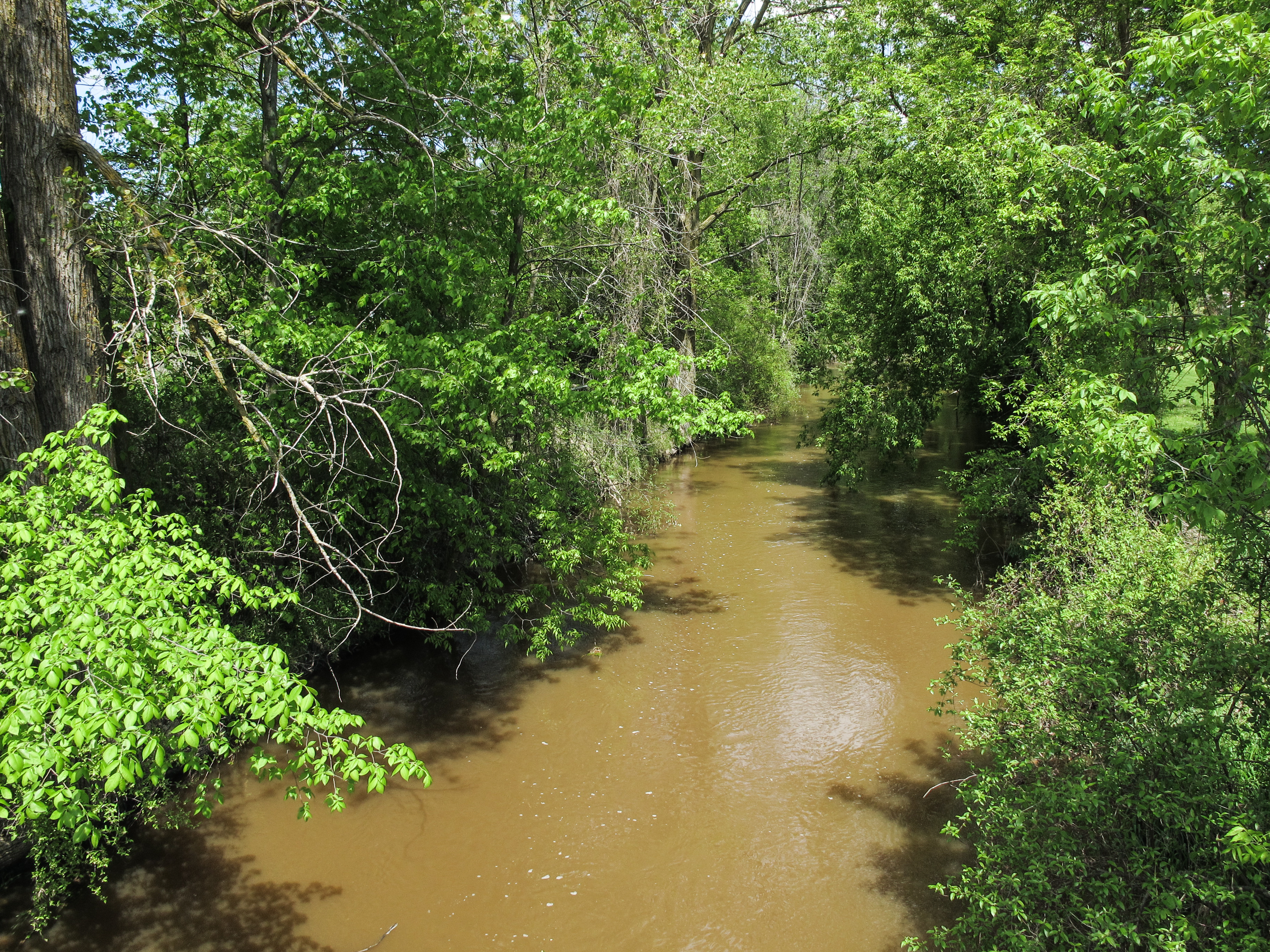 The Pinconning River as viewed from the north side of Pinconning Road in Pinconning Township in Bay County, Michigan